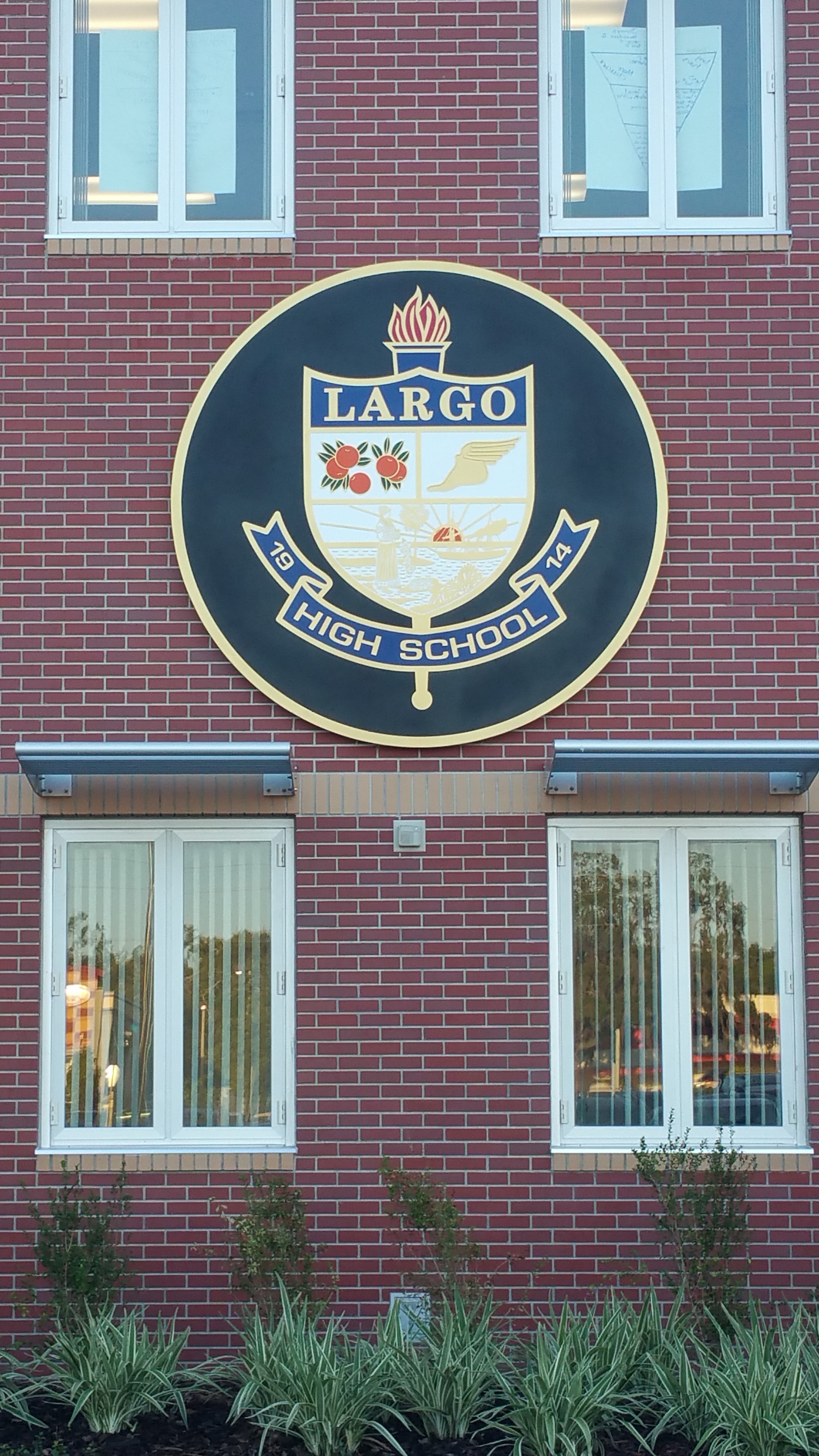 Largo High School colors are royal blue and gold. The school seal contains three images representing the school; oranges, a talaria, and an image from the Florida State Seal showing a Native American standing on the shoreline with a Sego Palm, a Spanish sailing vessel, and our setting sun.